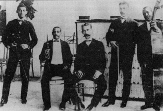 photo of Papaito Torroella & his band